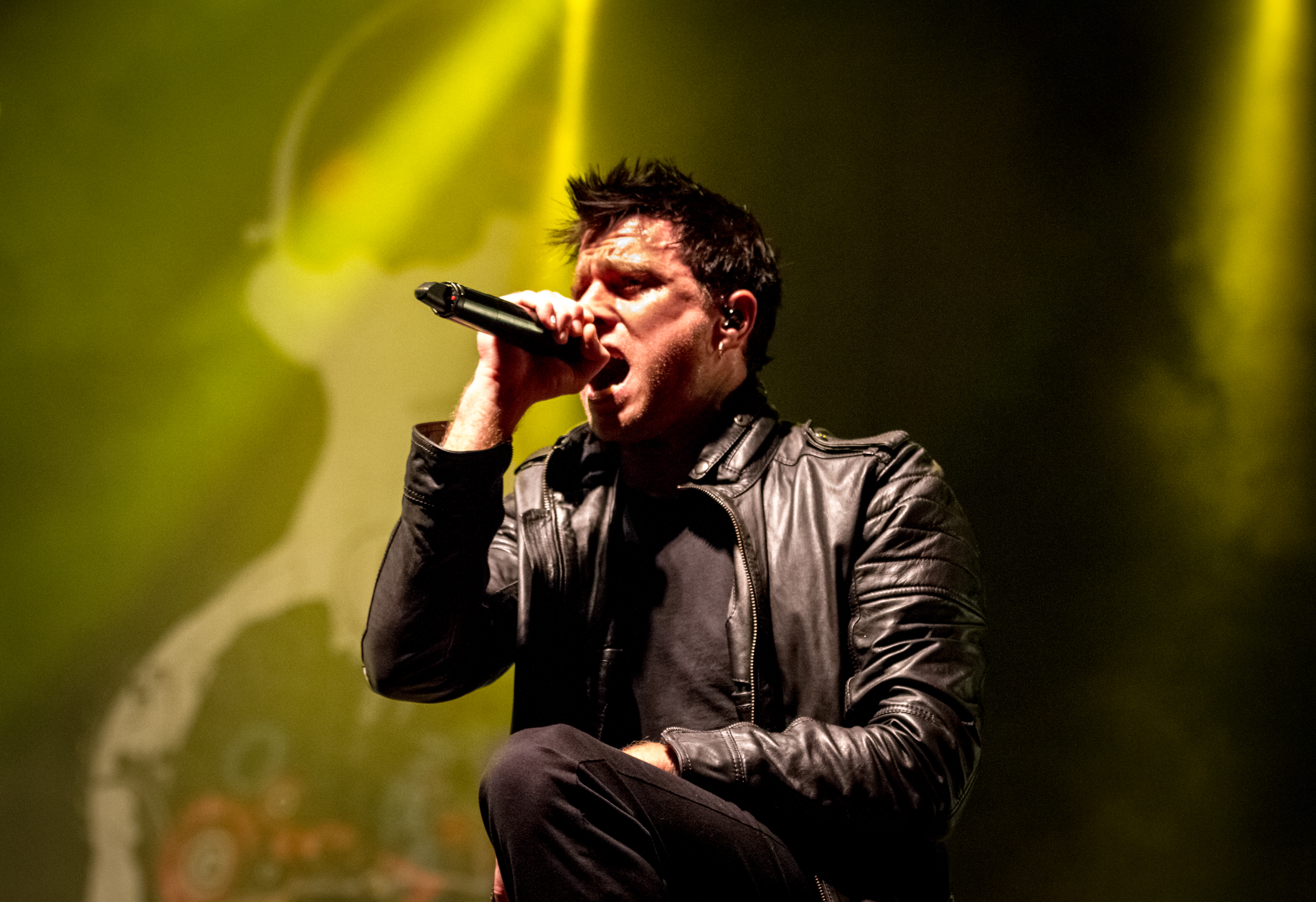 Three Days Grace - Rock am Ring 2015